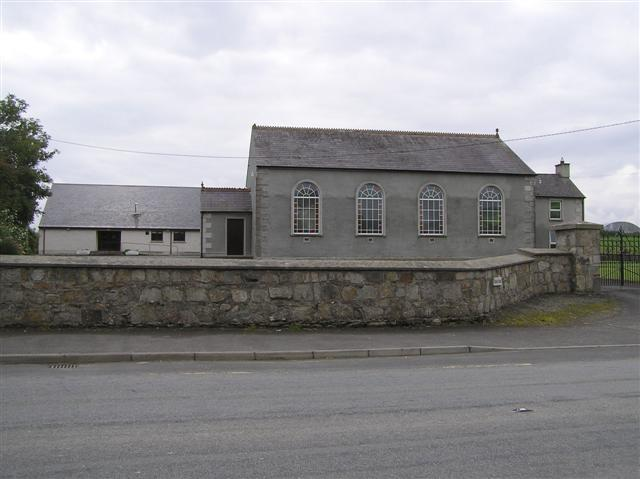 Faghan Presbyterian Church It is located on the R238 at Tooban